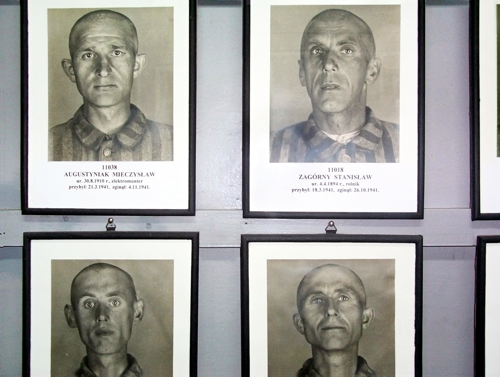 Photos of various victims of the concentration camp Auschwitz-Birkenau